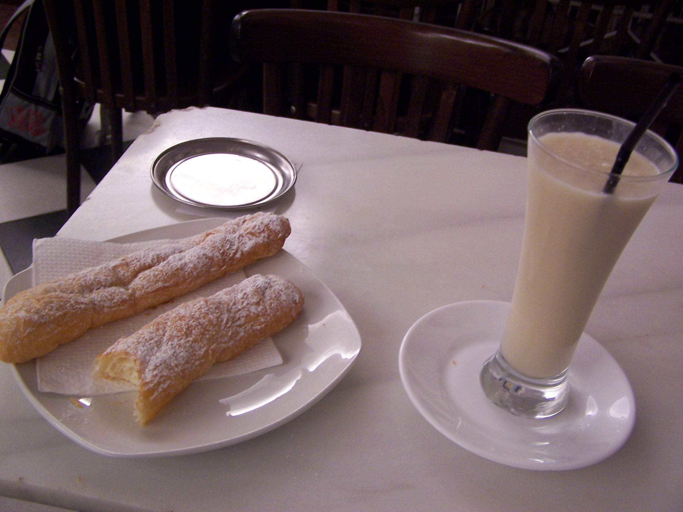 Horchata, a refreshing and delicious soft drink from Spain.